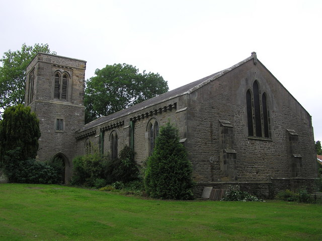 St.Cuthbert's with St. Mary's Church : Barton. St.Mary's was built in 1840, the remains of St. Cuthbert's Church (said to be the site where monks rested with the saint's body)lies on the eastern edge of the village, some headstones are visible today.